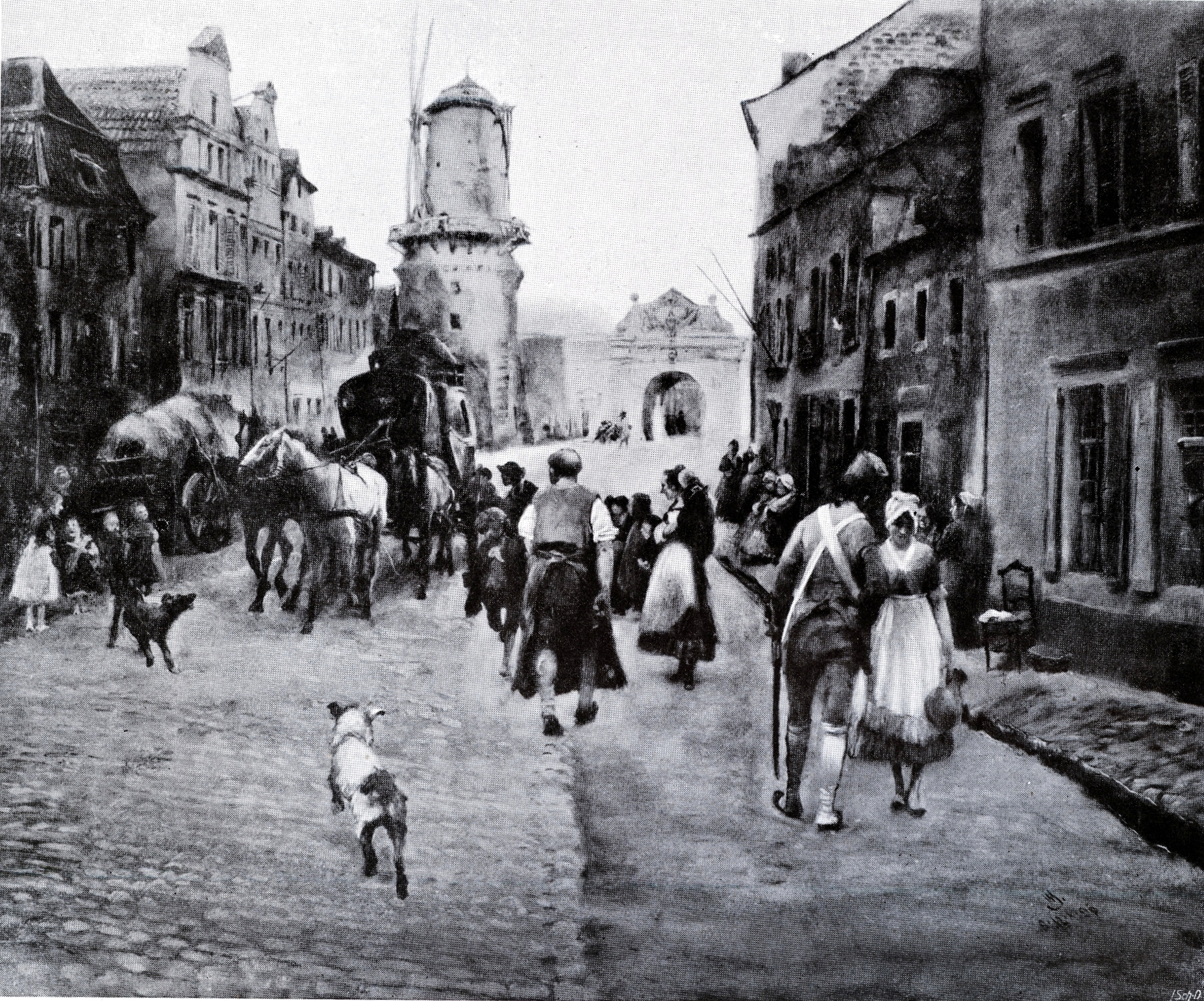 t